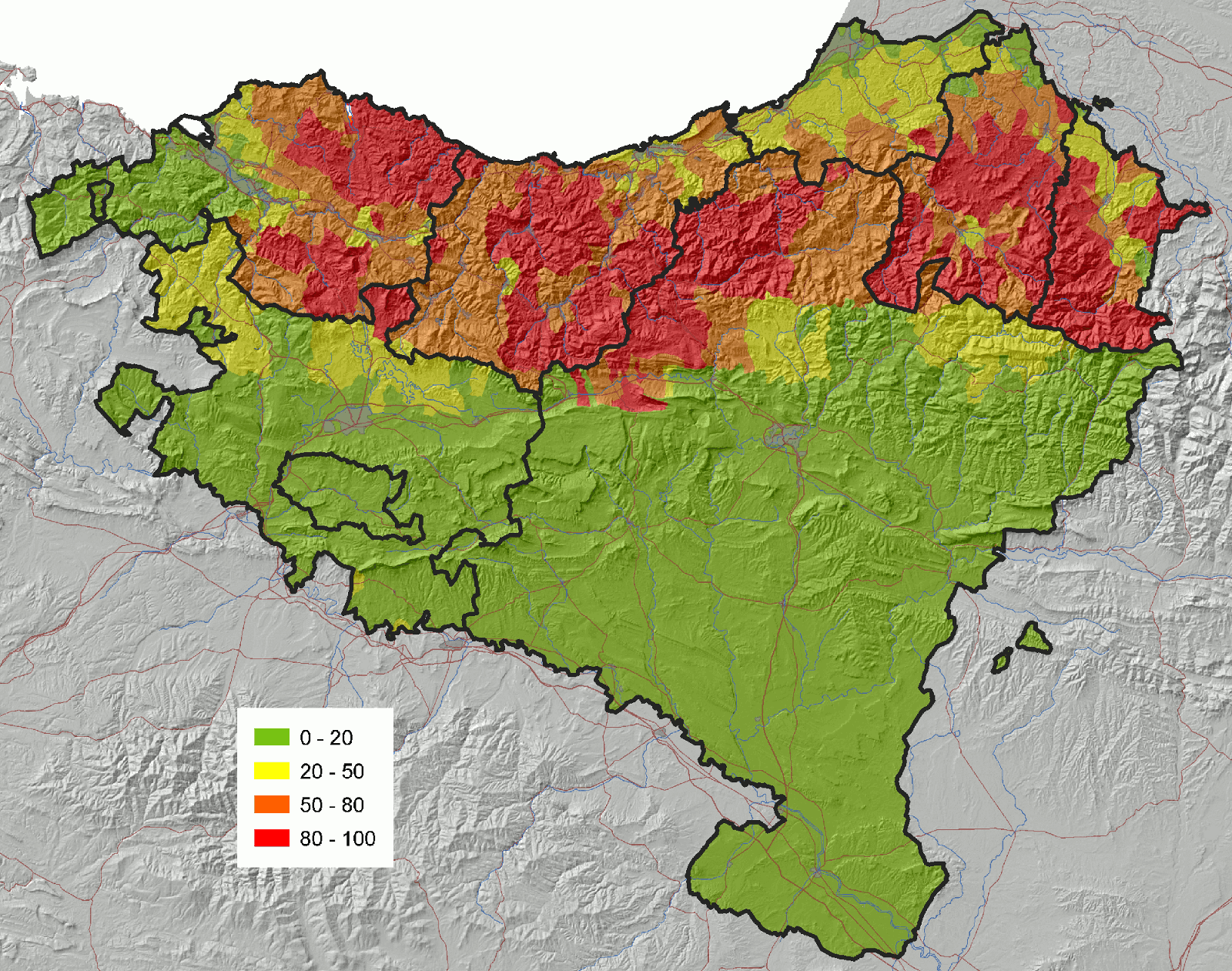 Figures show percentage of Basque speaking people (in 2006)